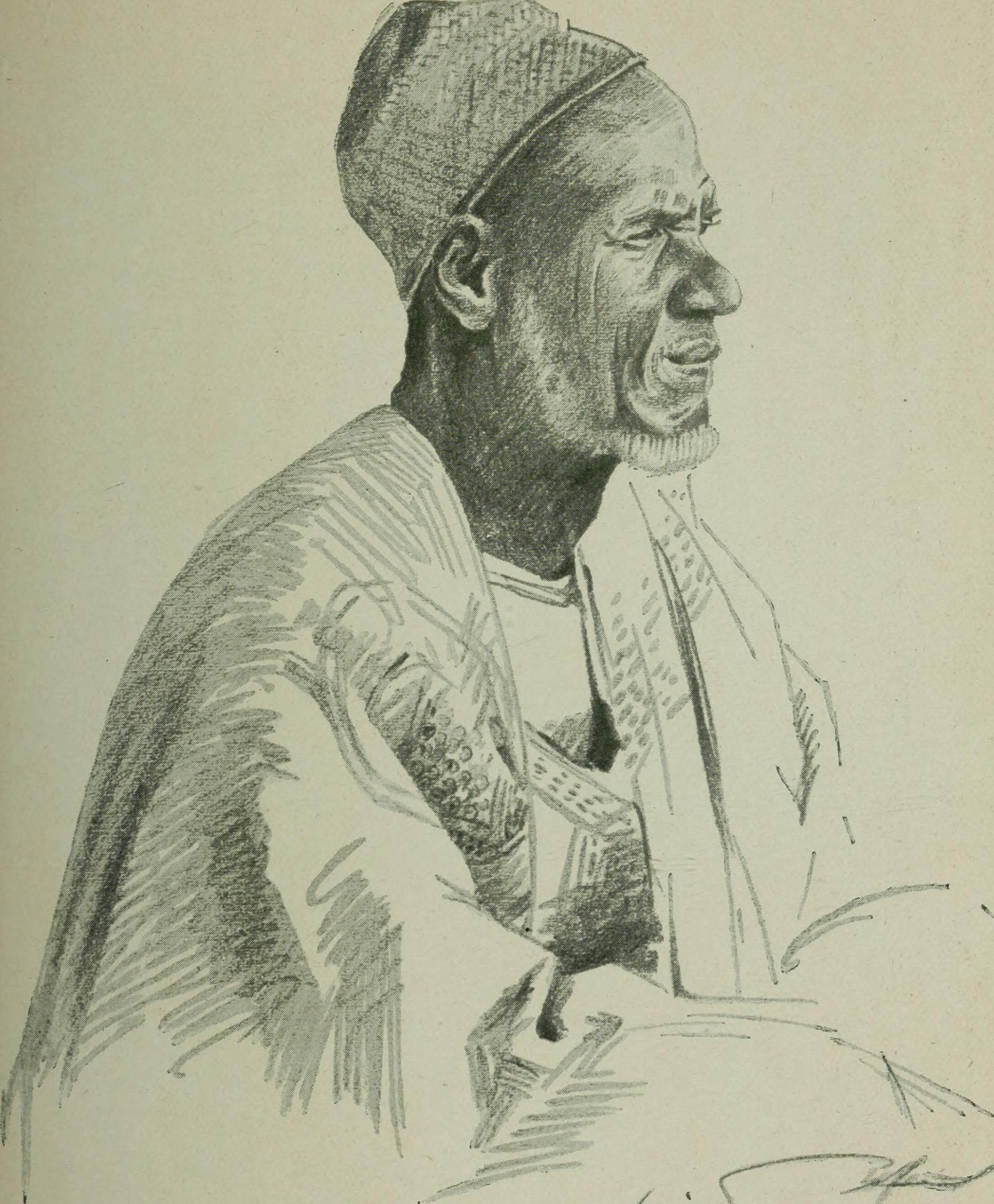 Market superintendent in Dikoa Title: From the Congo to the Niger and the Nile : an account of The German Central African expedition of 1910-1911 Year: 1913 (1910s) Authors: Adolf Friedrich, Duke of Mecklenburg-Schwerin, 1873-1969 Deutsche Zentral-Afrika-expedition, 1910-1911 Subjects: Publisher: London : Duckworth Text Appearing Before Image: of April we saw on the horizon the blueoutline of the Mandara Mountains. A kind of thrushwas singing in a thorn bush, its song bearing someresemblance to that of our blackbird. At Kolofata, one days march from Mora, we weremet by a troop of horsemen sent out by the sultanto welcome us, and bearing gifts of eggs, honey, andhuge baskets of dates. A few timid natives approachedus from the mountains and begged us not to visit theirvillages, as in that case their wives and children wouldcertainly throw themselves over a precipice. Ilaughed and slapped them on the back, saying: My good duffers, we are not as dangerous as allthat! But I firmly believe that if we had foundtime to pay them a visit, they would either have runaway, or else they would have received us with ashower of poisoned arrows. The following day a five hours ride brought us toMora. According to the custom of the country, theyoung sultan rode in state to meet us, for we werethe first white men to claim his hospitality. Mora Text Appearing After Image: 7*t 144. Market superintendent in Dikoa.